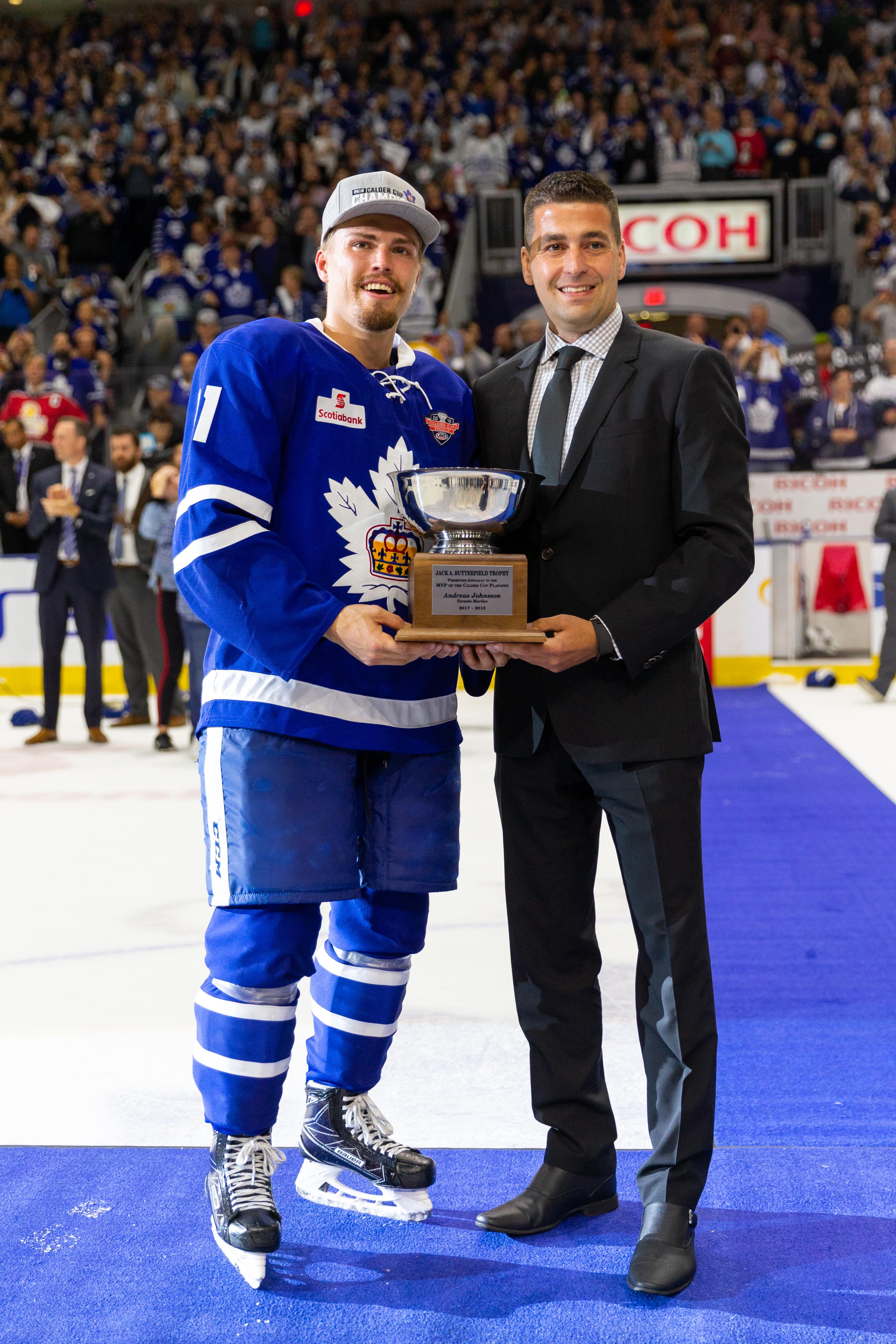 Photo: Thomas Skrlj/AHL